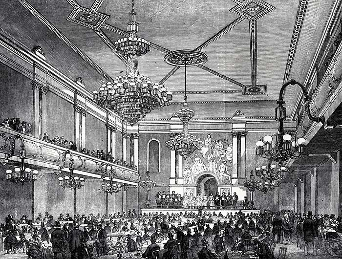 Canterbury Hall (Music Hall), after 1856. In the collection of the Theatre Museum UK [1] cite - People Play PeoplePlayUK allows reproduction and reuse of items accessed through the website for non-commercial educational and research purposes (as required by the New Opportunities Fund), except where copyright ownership by a third party has been explicitly stated, in which case written permission from the rights holders will be required to use the items. funded by the New Opportunities Fund (a UK government programme to make the collection available to the public). This image was first produced in 1858.